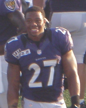 Baltimore Ravens running back Ray Rice at Navy-Marine Corps Memorial Stadium in 2012.